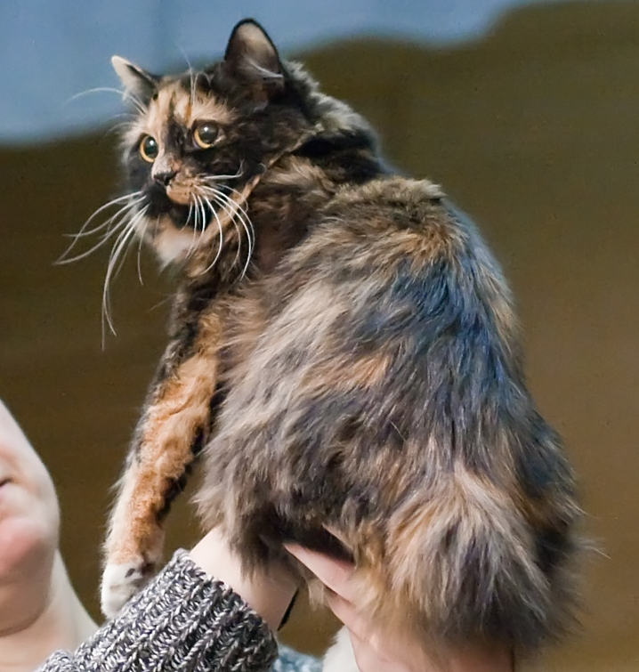 Cymric, in a cat show focusing on the Norwegian Forest breed. Source Deimos C'est Combien? (Myrtti) [CYM f 09 53]